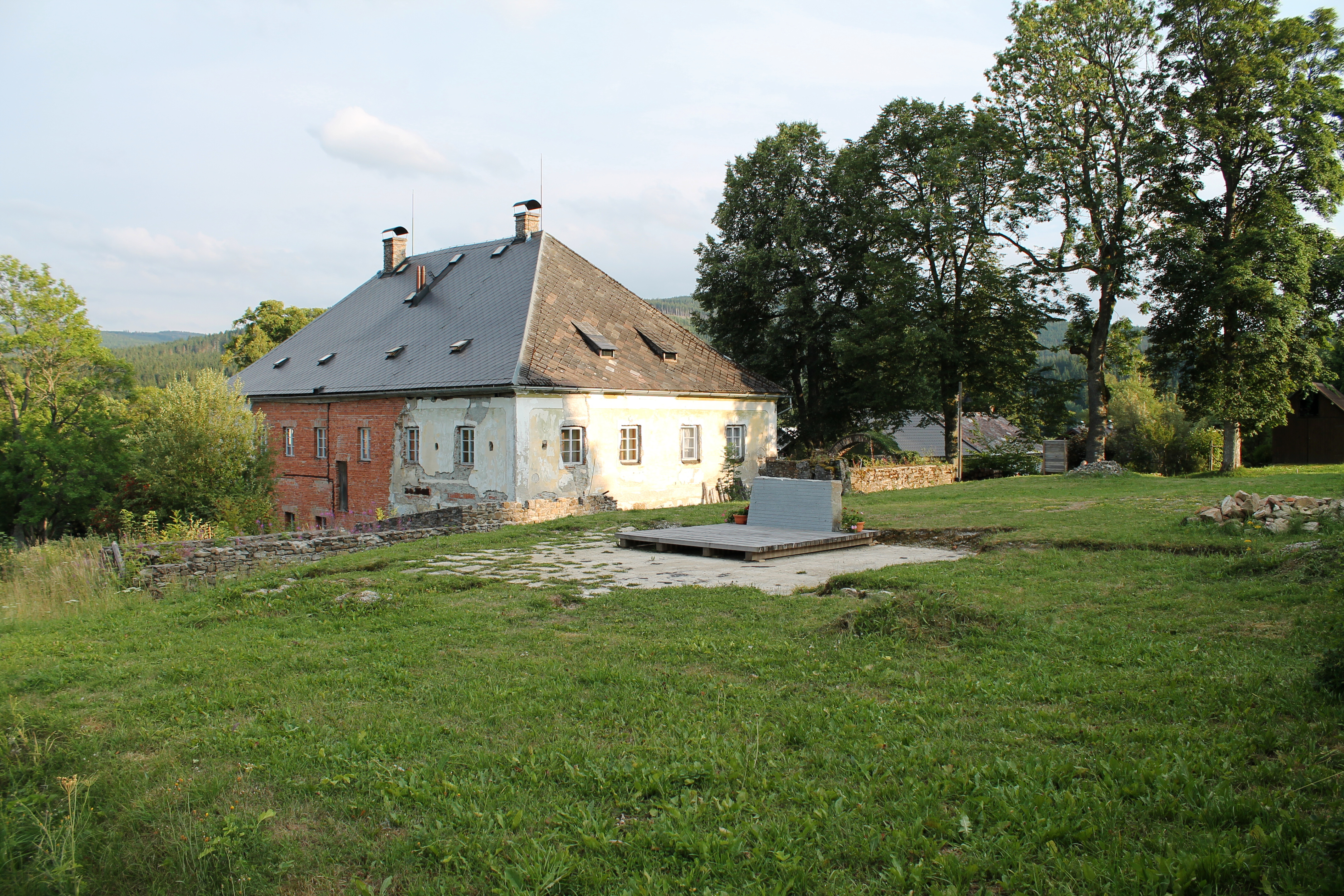 Place of destroyed Church of Saint Procopius, Prášily, Klatovy District, Czech Republic - Google Maps - Google Earth